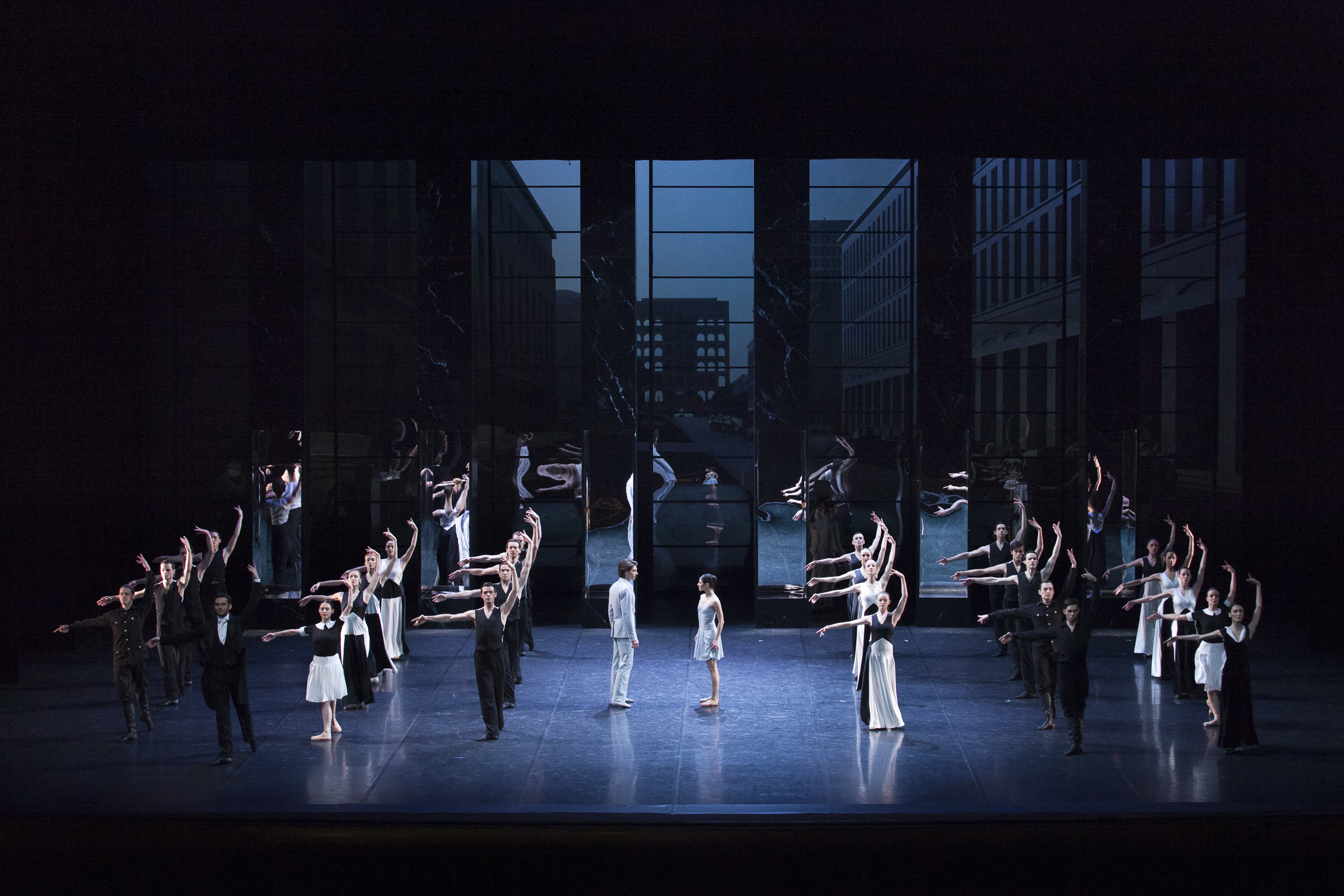 "Romeo and Juliet" in Krzysztof Pastor's choreography, Polish National Ballet, set and costume design by Tatyana van Walsum